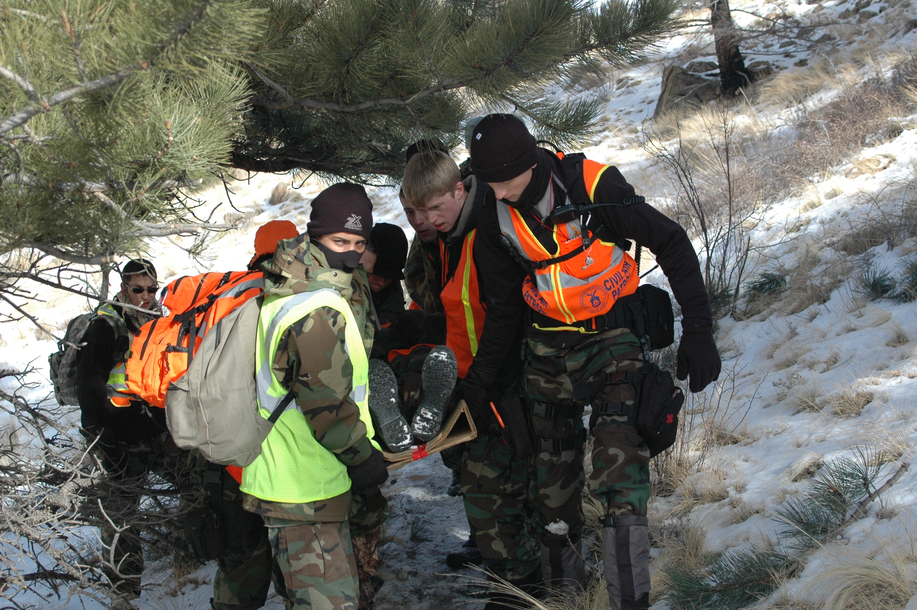 Cadets from the Colorado Springs Cadet Squadron at Peterson AFB participate in winter training. The training helped the cadets during a recent mission when they rescued a 66-year-old Kansas resident with Alzheimer’s Disease who was lost for two days in freezing conditions on the Colorado plains. (U.S. Air Force/file photo)